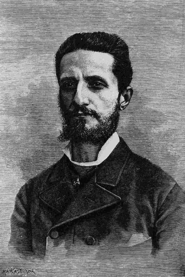 Giulio Ricordi (1840-1912)